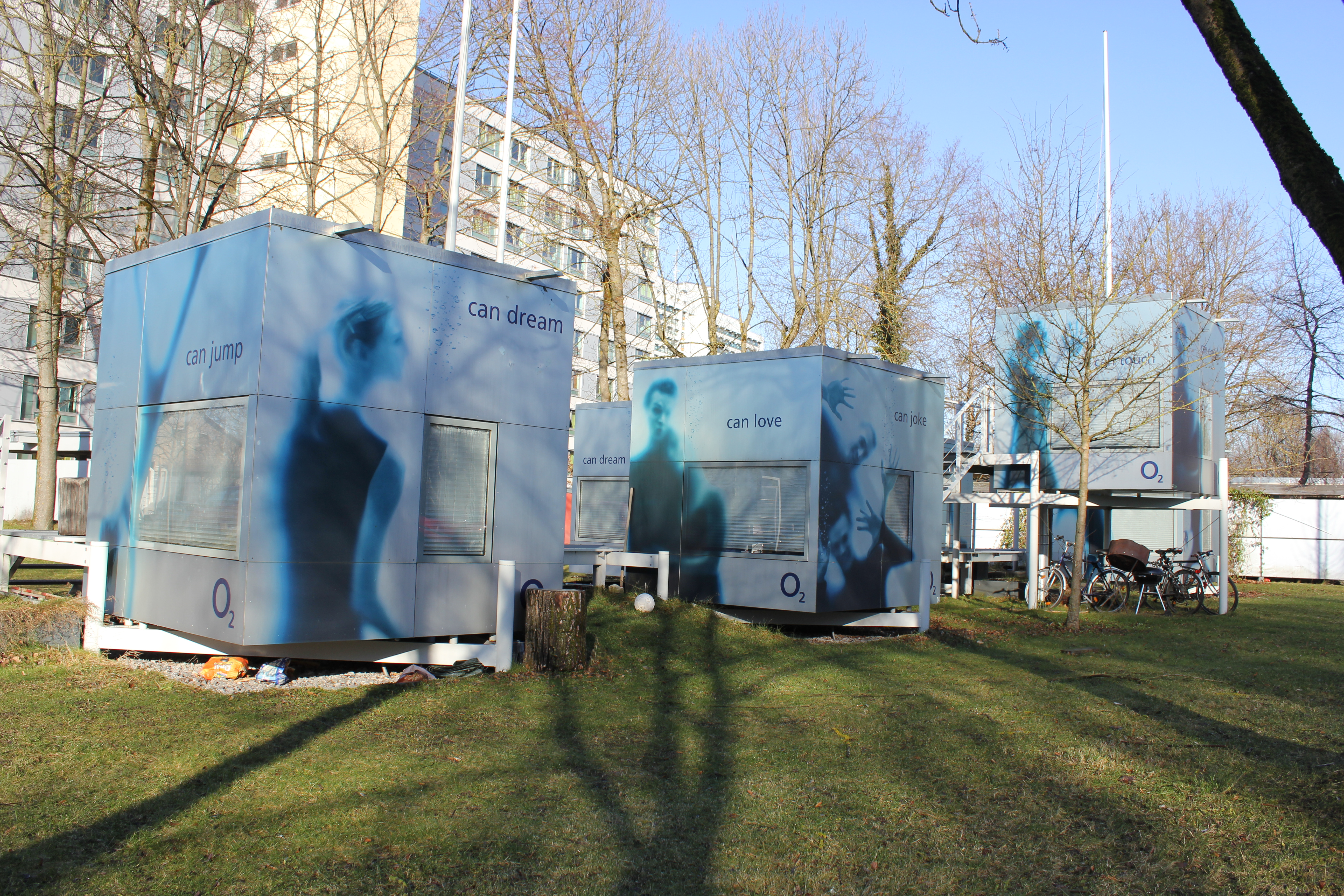 Studentenstadt Freimann in Munich